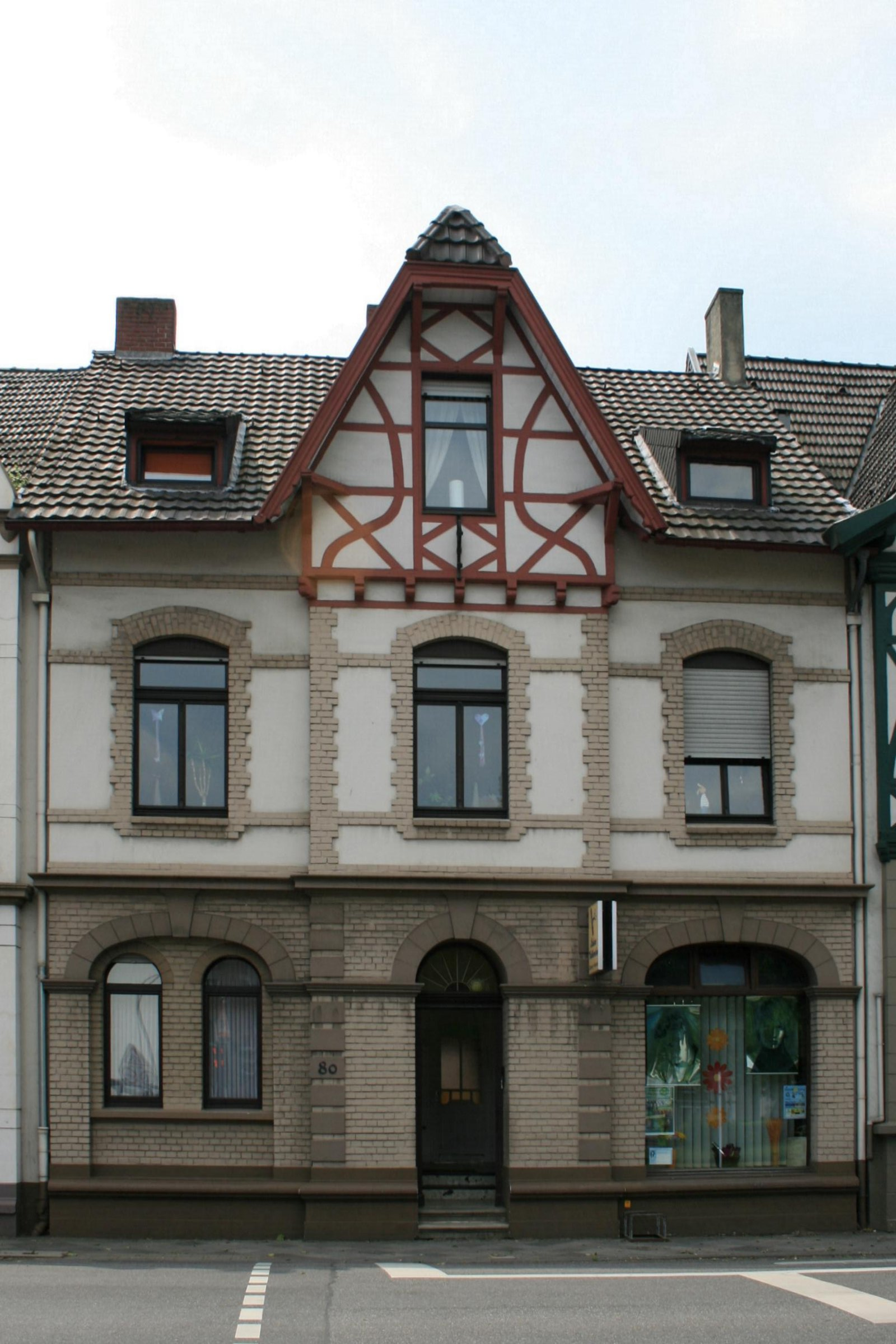 Cultural heritage monument No. K 044 in Mönchengladbach